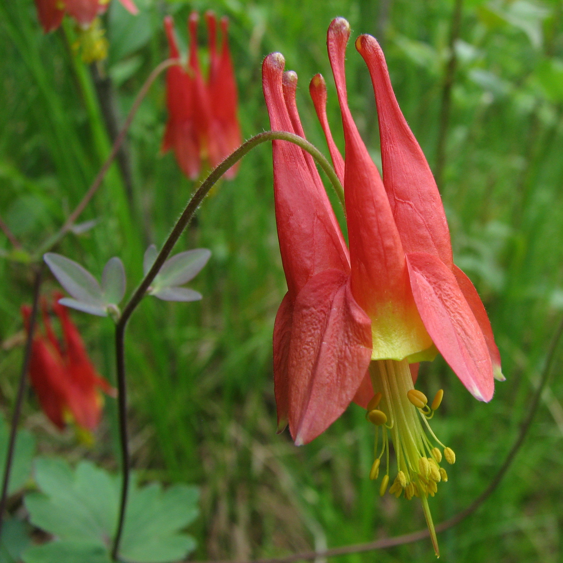 Wild columbine (Aquilegia canadensis) in Talcott Mountain State Park